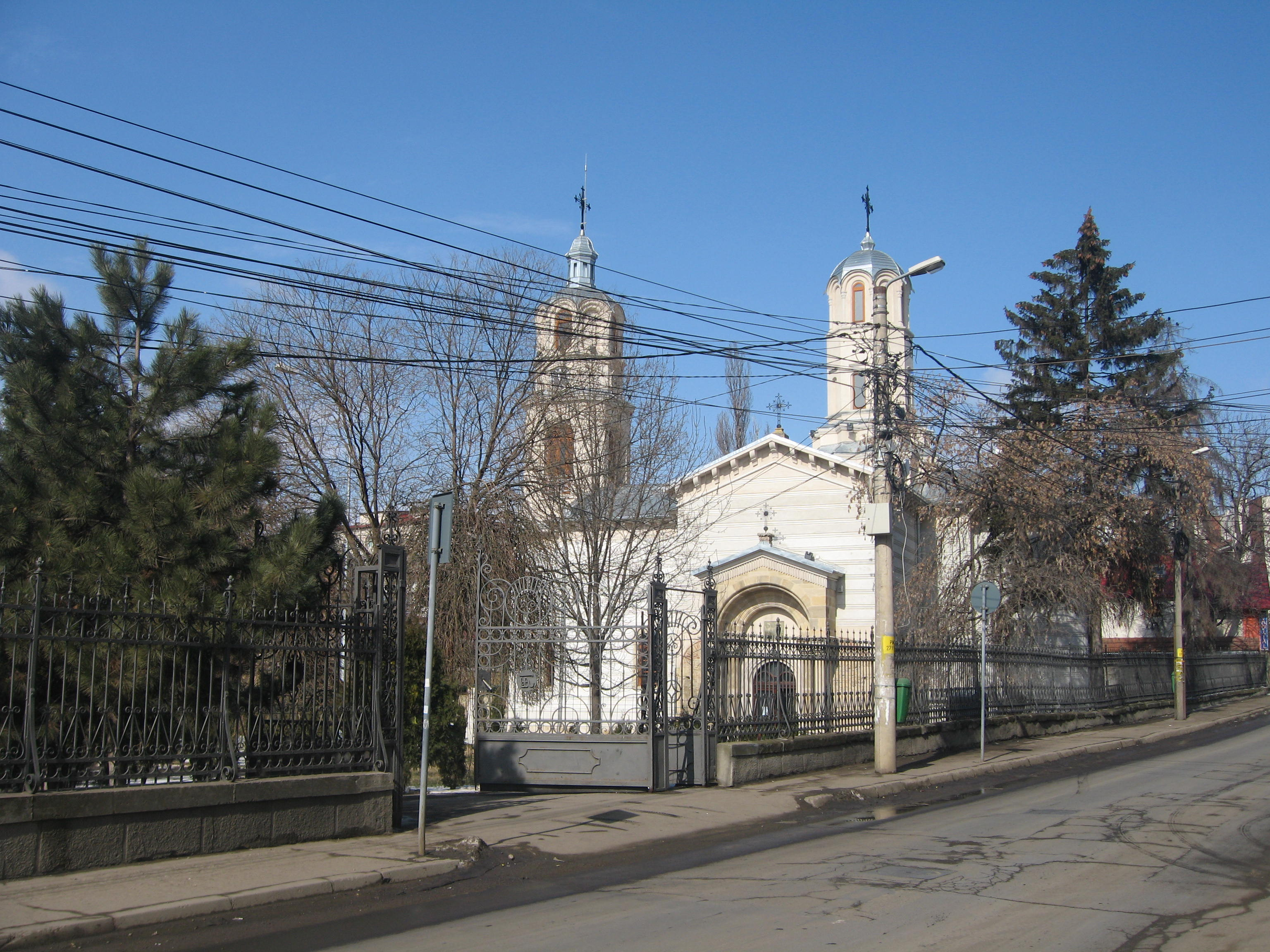 Armenian church in Iași